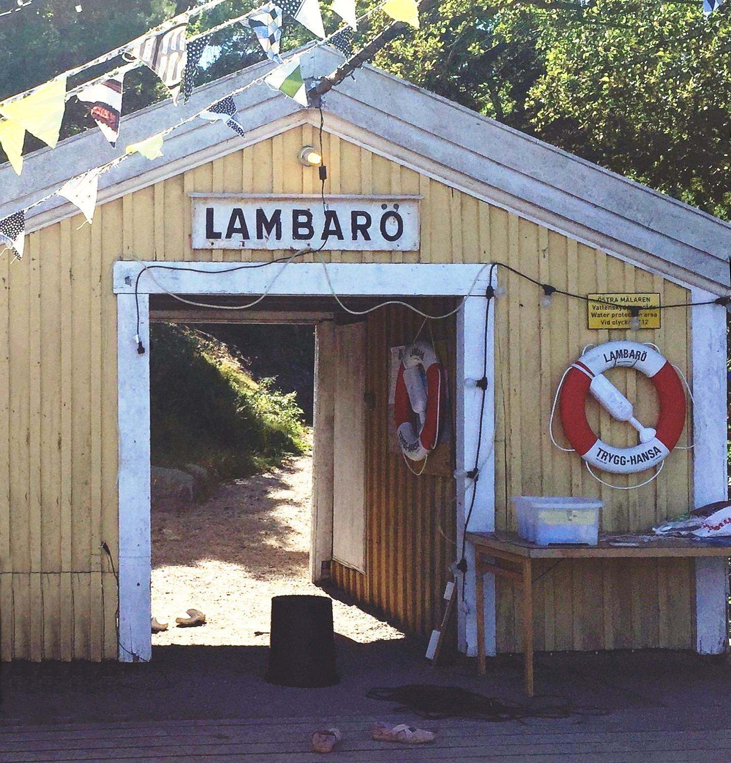 Lambarö steam boat pier